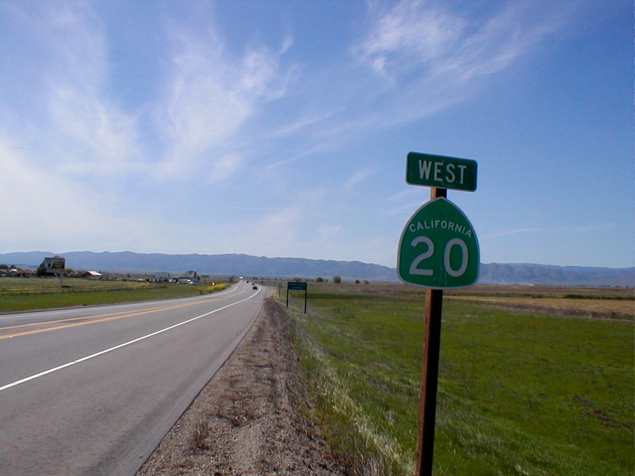 Heading west along California State Route 20 in the Sacramento Valley, in Colusa County, California. Picture taken 2003 by Glenn Pillsbury.